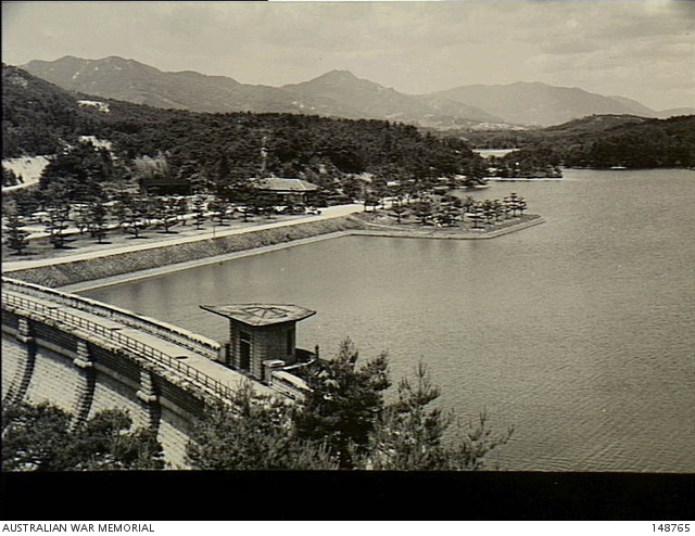 An elevated view of the Yakayama Dam which supplies Kure with its water and hydro-electricity supply.